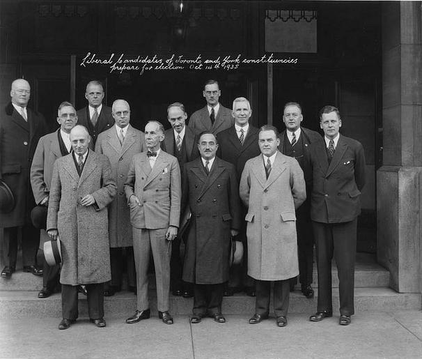 Federal liberal candidates of Toronto and York constituencies prepare for election, standing outside unknown building. Includes Vincent Massey (front row, second from left), James Chalmers McRuer (back row, centre) and John Leslie Prentice (front row, far left).